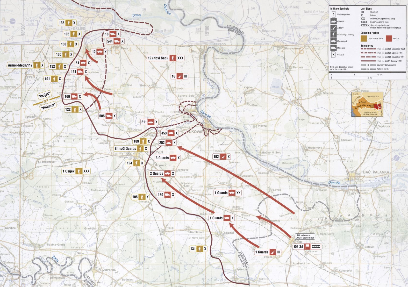 Map of front lines and military offensives in the eastern Slavonia in Croatia in September 1991-January 1992 period of the Croatian War of Independence. Balkan Battlegrounds Map 3.